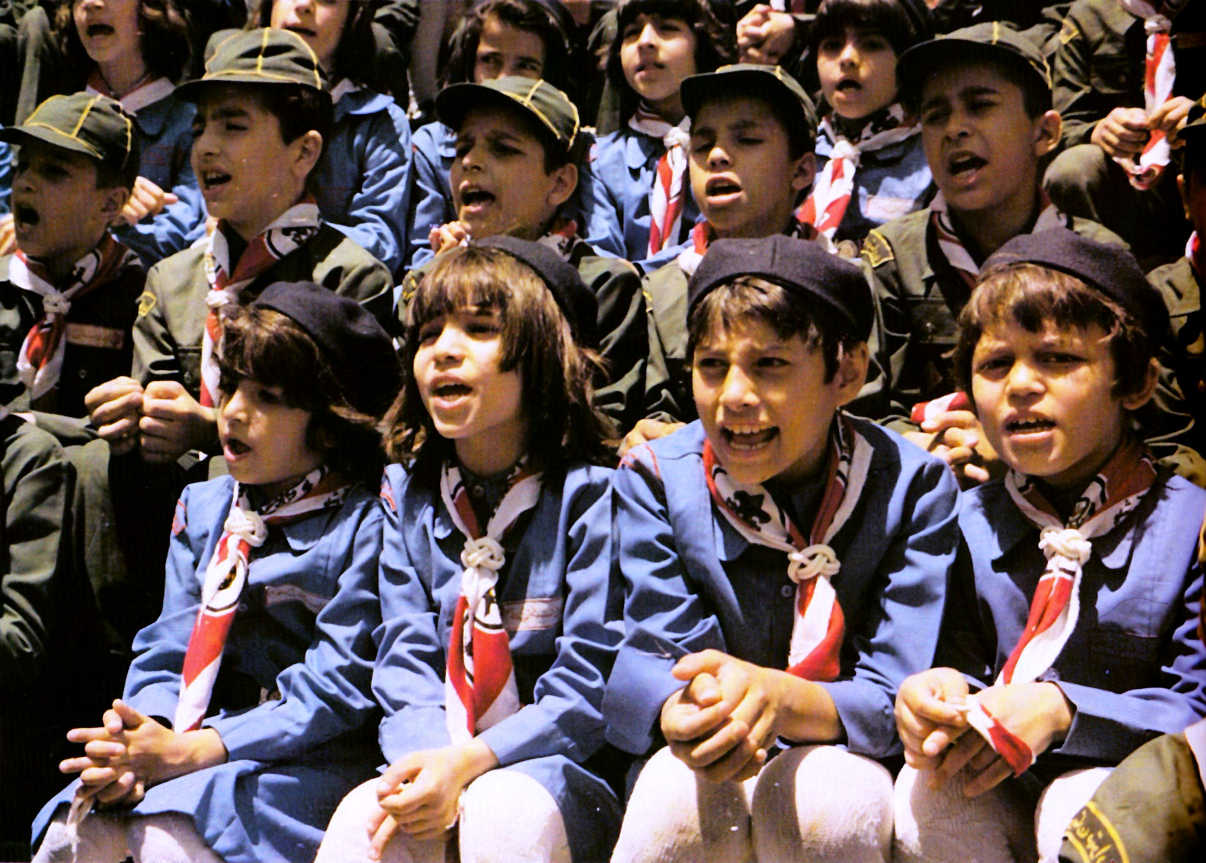 Scouts (Fereshteh), Iran